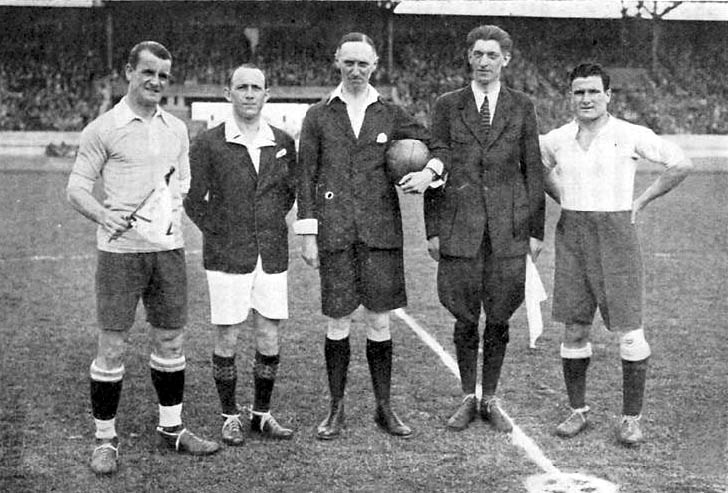 Captains José Nasazzi (Uruguay) and Luis Monti (Argentina), referee J. Mutters (the Netherlands) and linesmen before the final of the final of the Olympic football tournament in 1928.